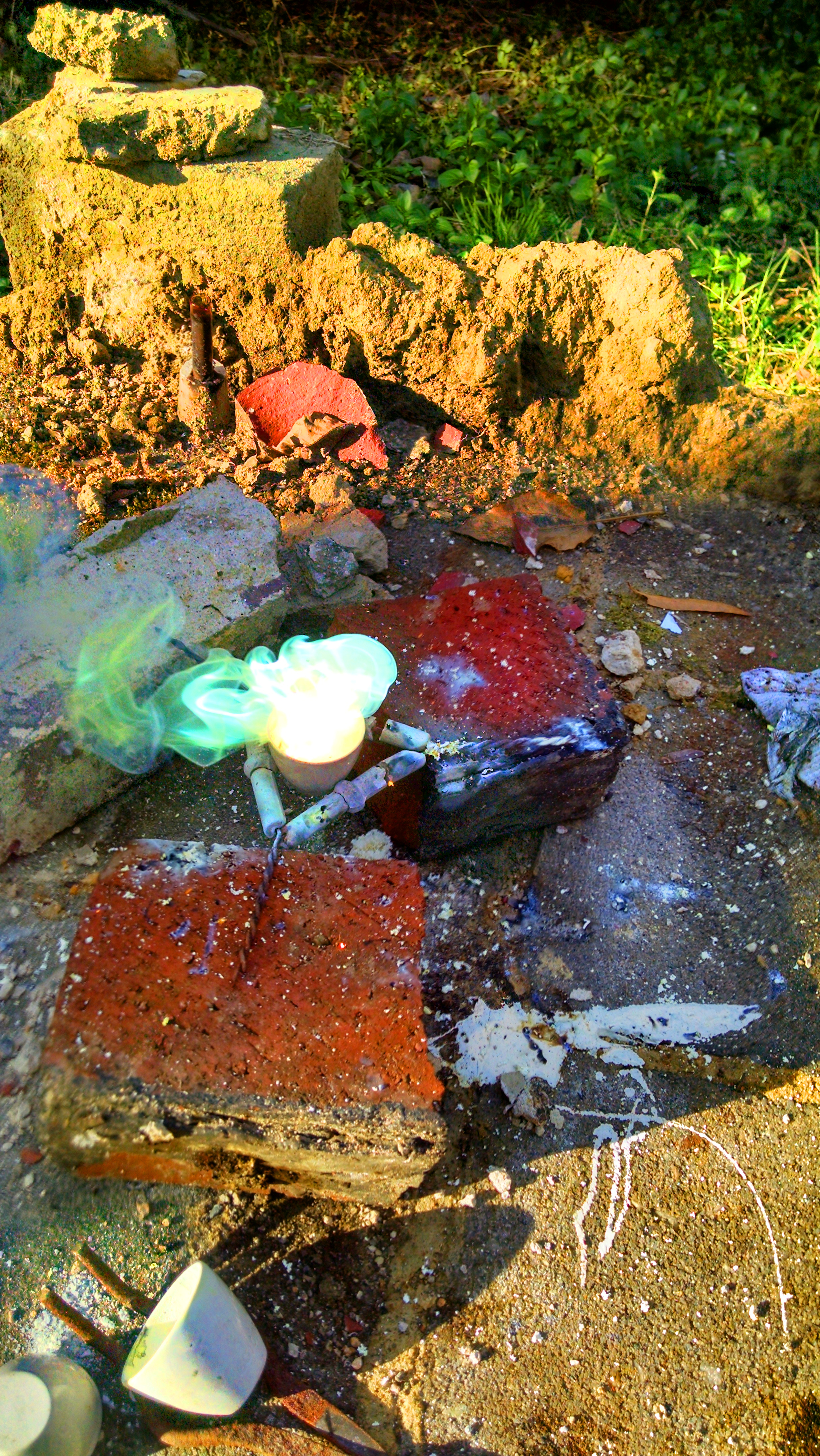 Powdered zinc and sulfure are ignited together, forming a blue-green flame. This mixture has been used as a rocket fuel. A sponge-like residue of zinc sulfide remains; this compound is phosphorescent, and will glow in the dark after being 'charged' with ultraviolet light.